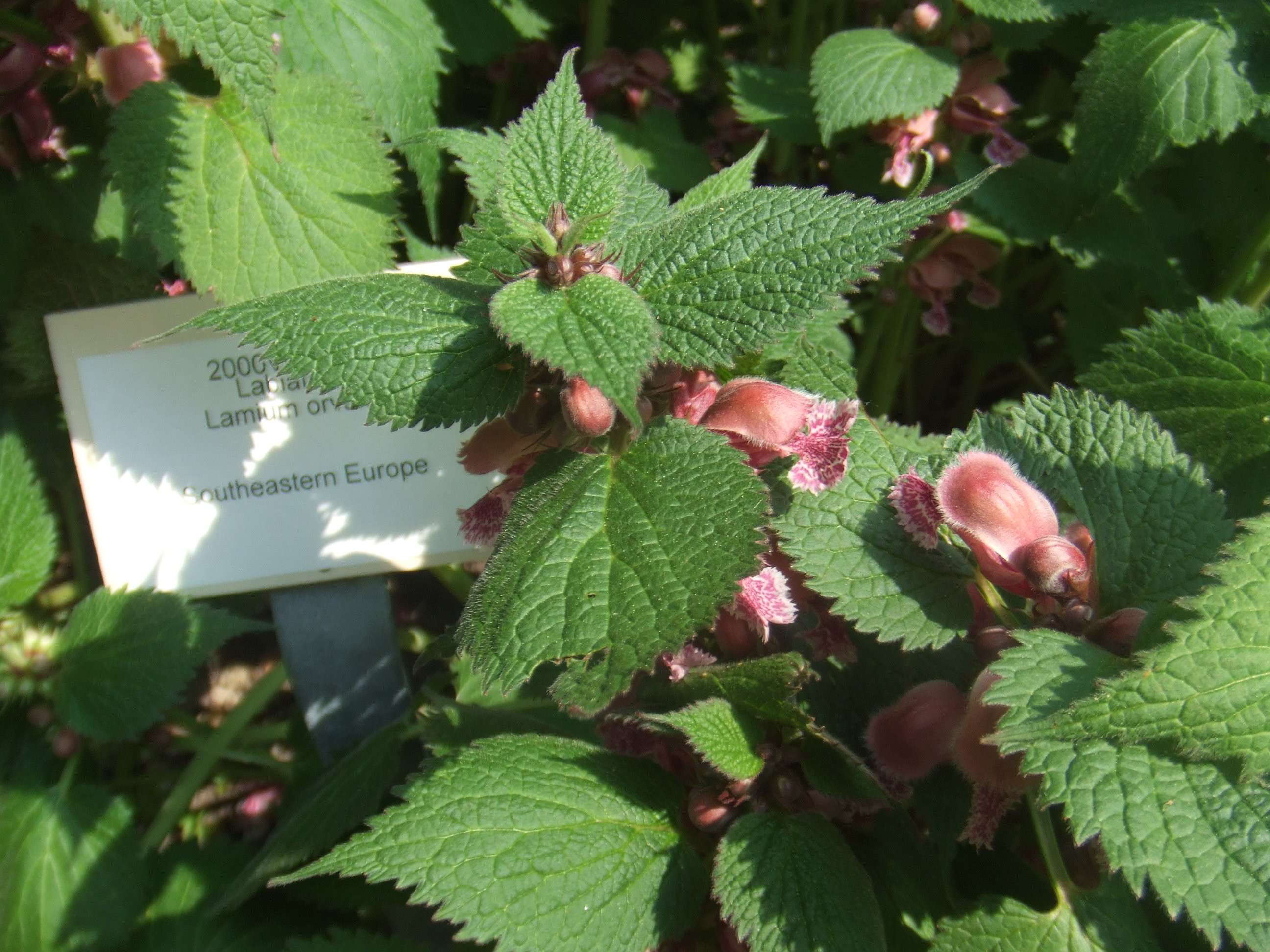 Lamium orvala, picture taken at the Botanische Tuin TU Delft in Delft, The Netherlands